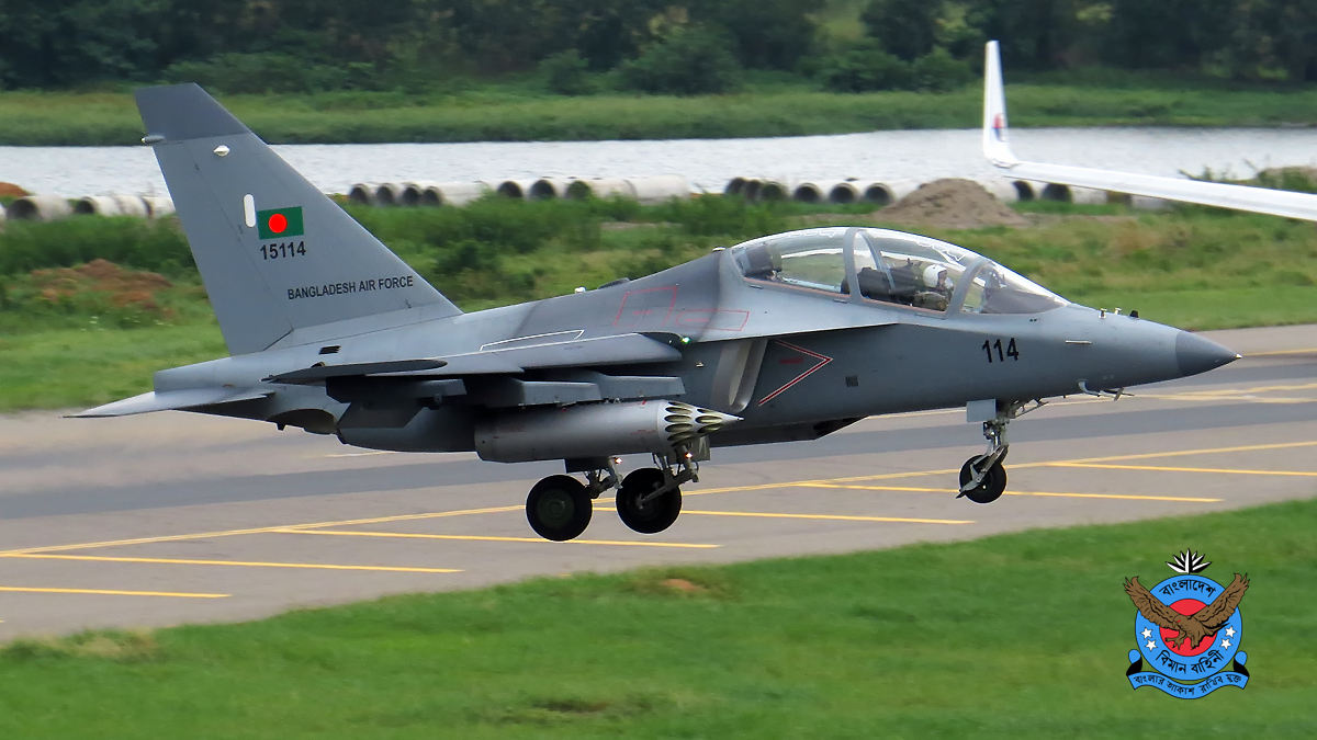 Bangladesh Air Force YAK-130